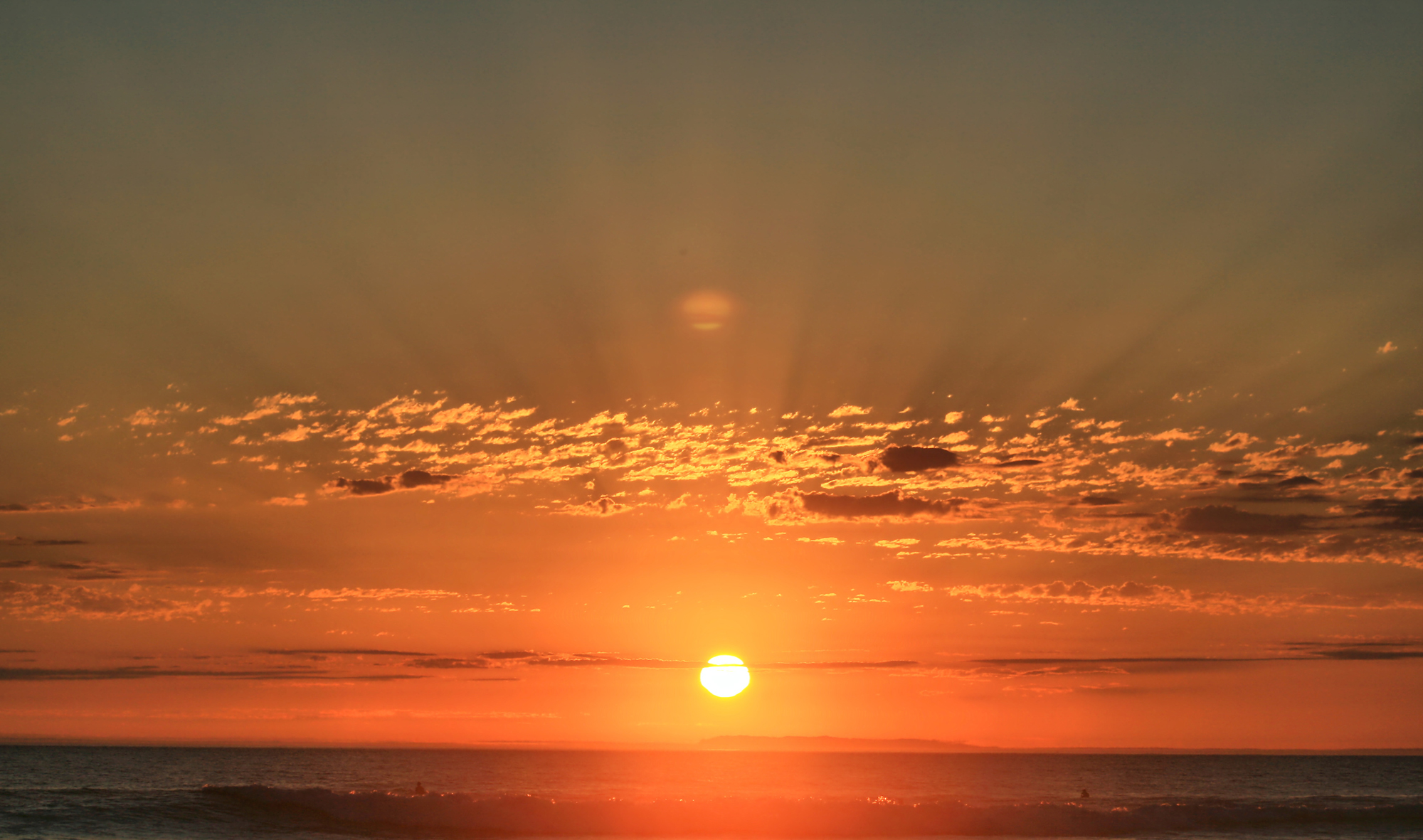 Crepuscular rays and lens flare. The Sun refracted in lenses.